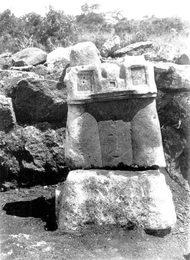 Nuragic sanctuary of Santa Vittoria (Serri - Sardinia - Italy) - Double baethyl - a stone model of a nuraghe used as an altar